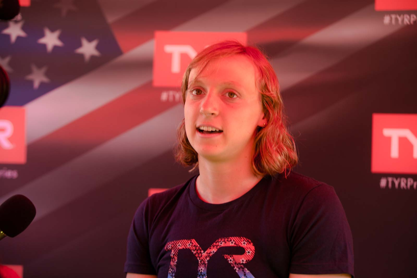 Katie-Ledecky-during-news-conference